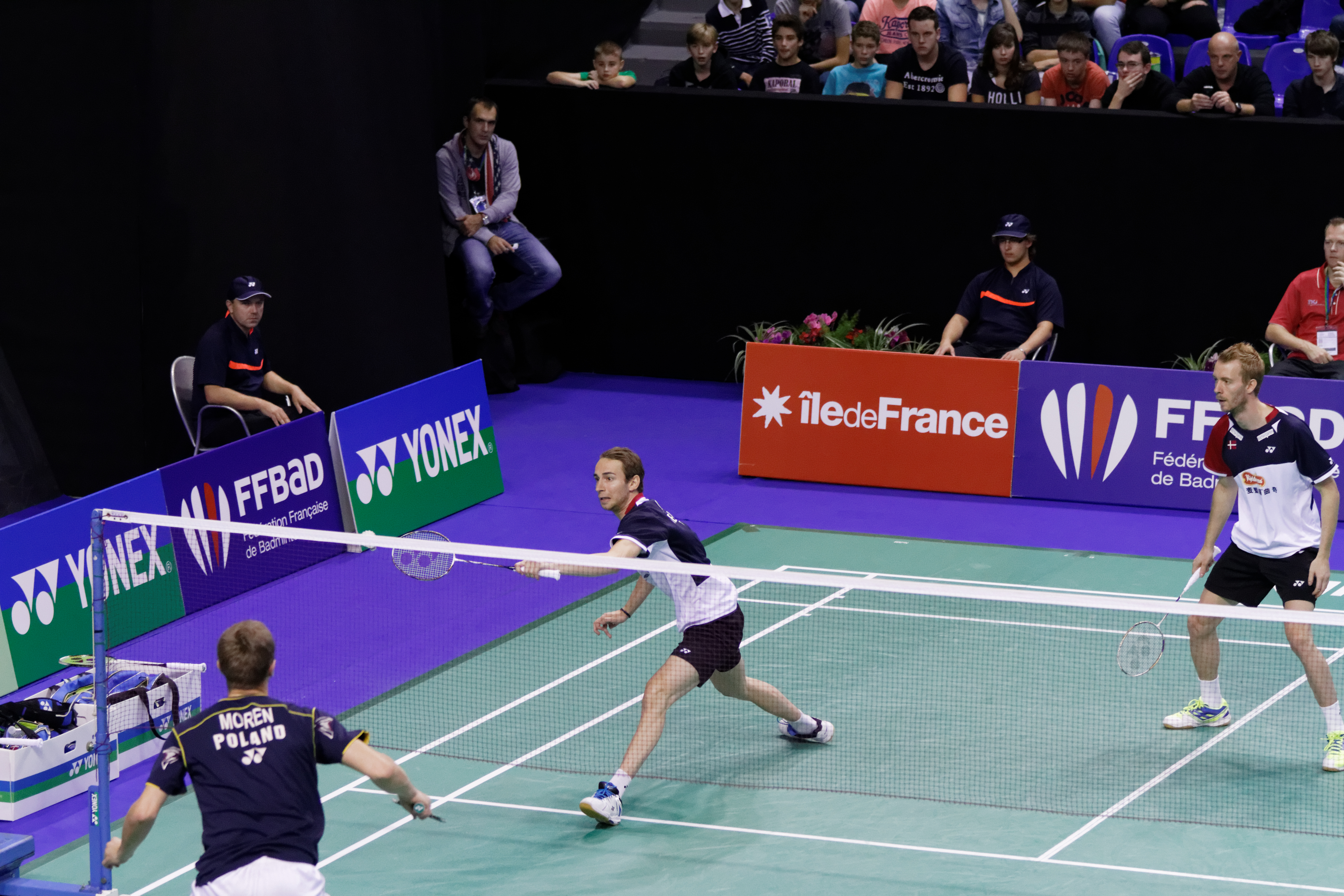 2013 French open. Men's doubles eightfinal. Łukasz Moreń and Wojciech Szkudlarczyk vs Mathias Boe and Carsten Mogensen.